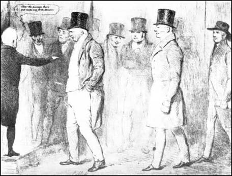 Drawing showing three new MPs, William Cobbett, John Gully and Joseph Pease (the first Quaker elected to Parliament) arriving in March 1833. An angry Horace Twiss can be seen third from the right.